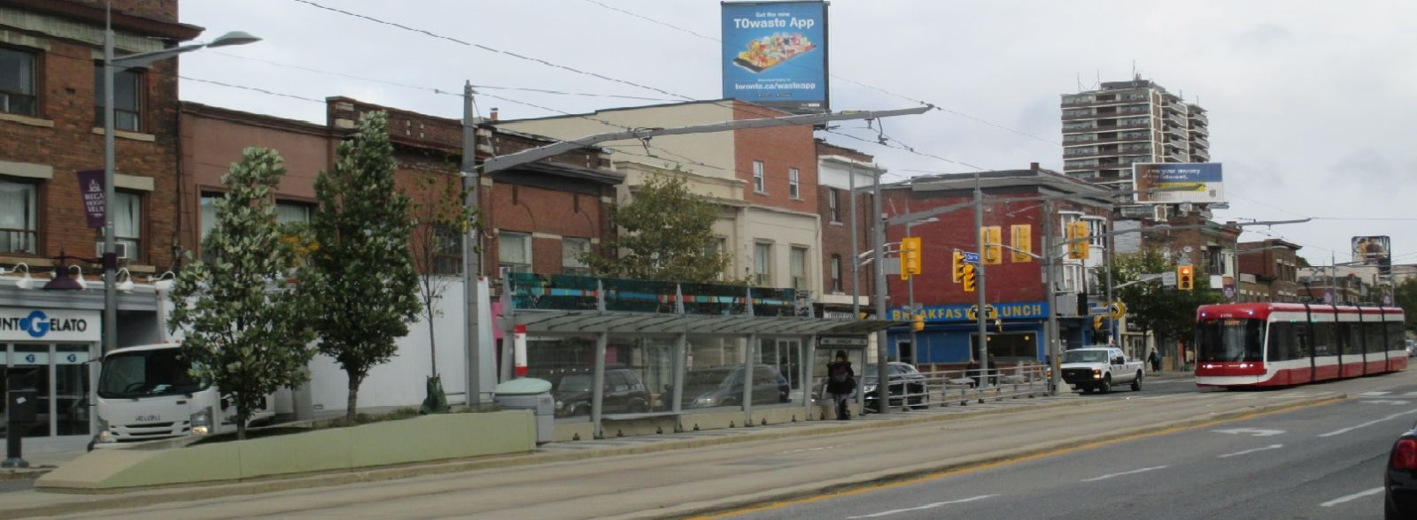 512 St. Clair route - Arlington westbound stop